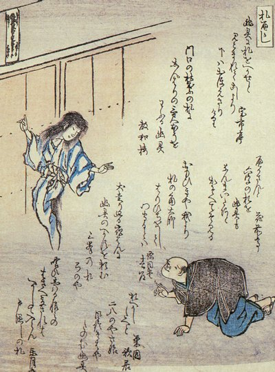 Fudagaeshi from Kyōka Hyaku Monogatari